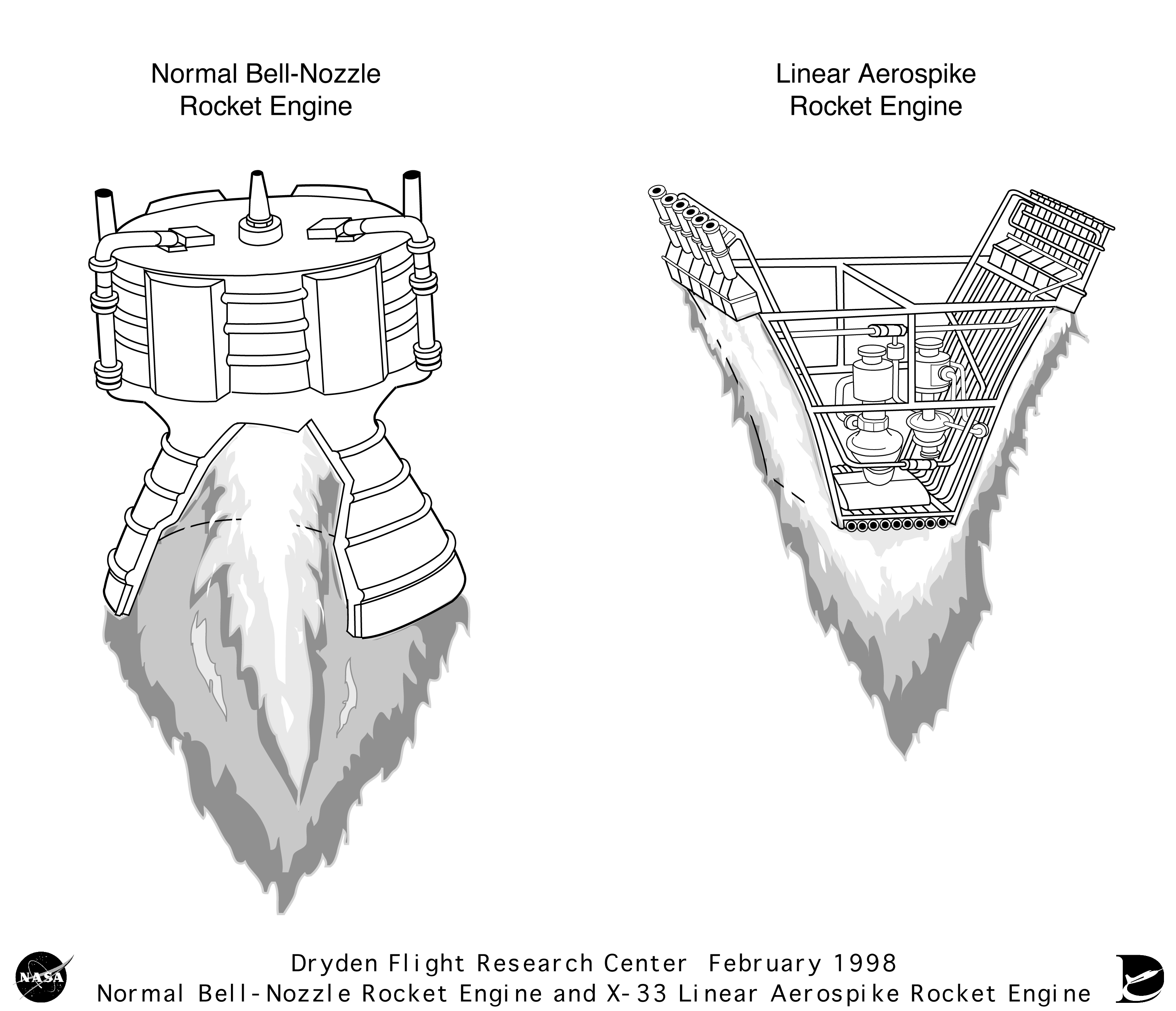 A X-33 engine comparison, with a traditional bell engine.